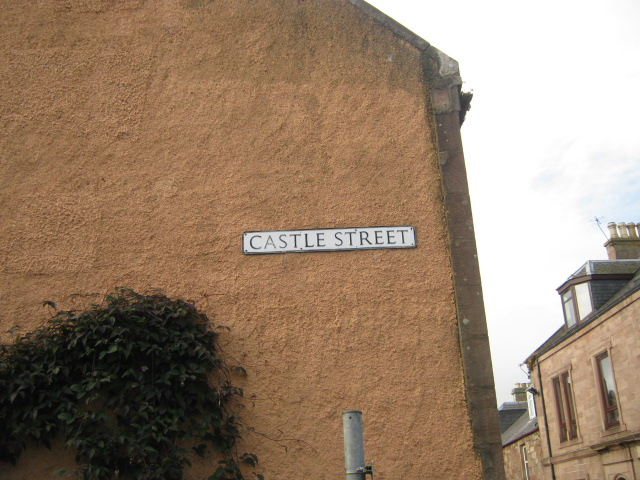 Castle Street, Fortrose, Scotland in 2012, named so because of the former Castle Chanonry of Ross